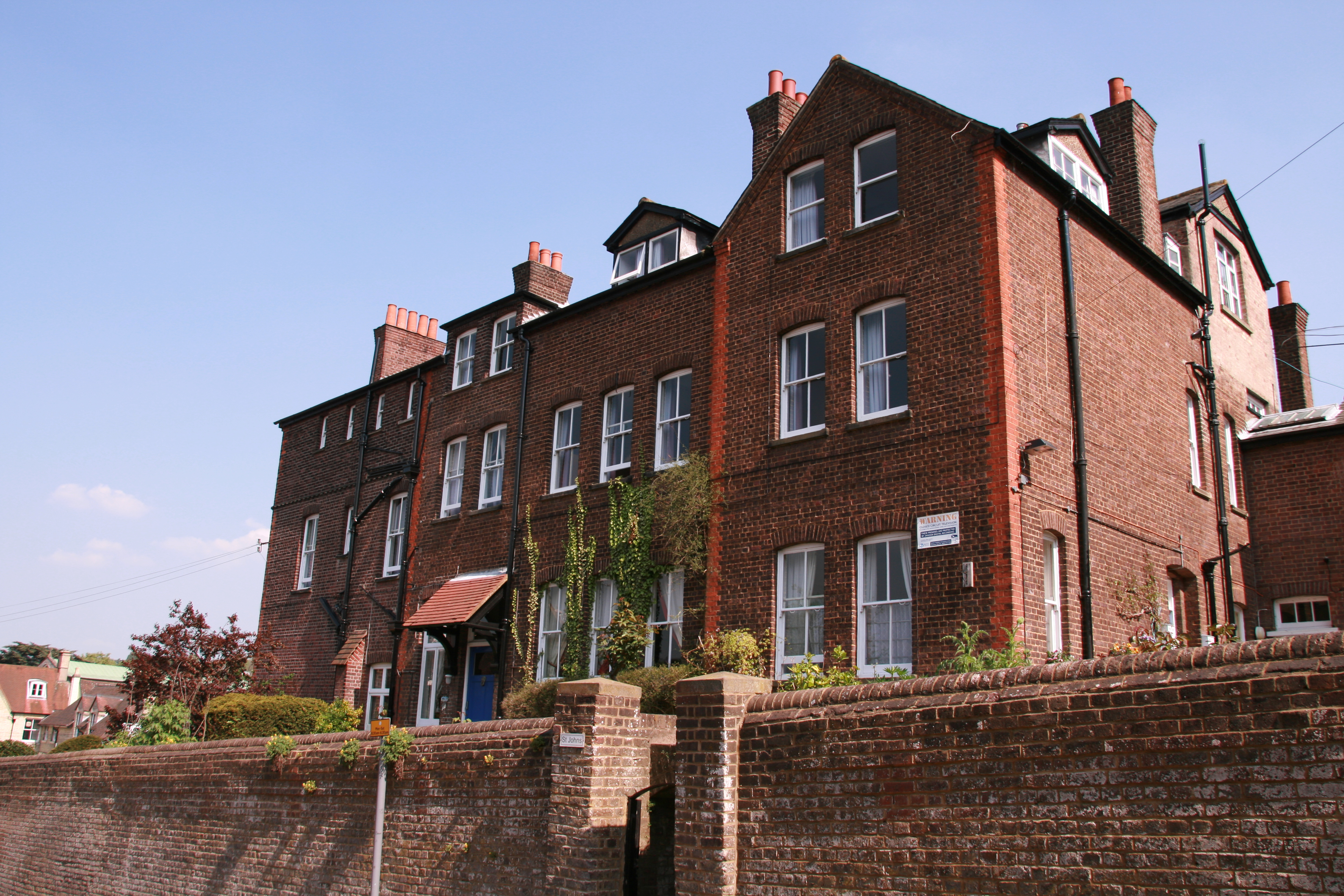 St. John’s, a boarding house of Berkhamsted School in Berkhamsted, Hertfordshire in the United Kingdom. The writer Graham Greene was born here in 1904 when his father was housemaster.